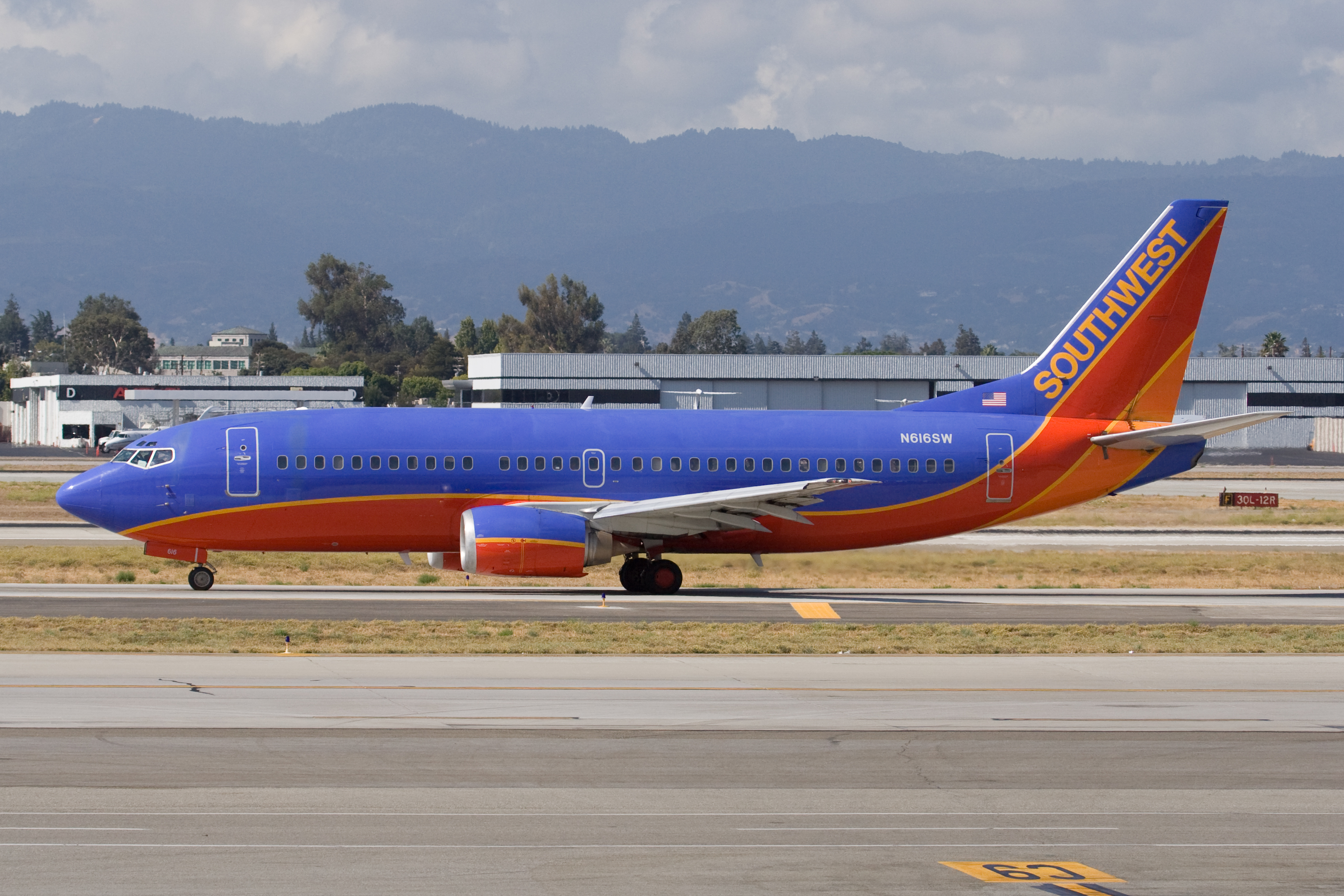 A Southwest Boeing 737-300 (N616SW) at San Jose International Airport